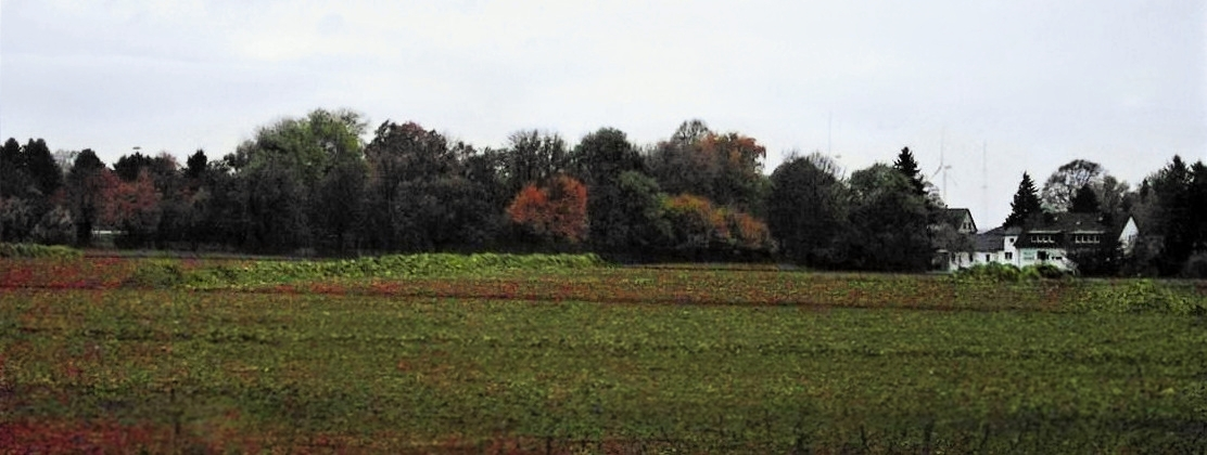 harvested sugar beet field near the german town Aachen. The leafs will be collected later and will be used as animal feed.